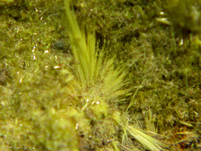 Studtite, Uranophane - alpha Locality: Shinkolobwe Mine (Kasolo Mine), Shinkolobwe, Central area, Katanga Copper Crescent, Katanga (Shaba), Democratic Republic of Congo (Zaïre) (Locality at ) Size: miniature, 2.6 x 2.2 x 1.0 cm Studtite on Uranophane A Small but extremely rich specimen of Uraninite covered with powdery, microcrystalline yellow Uranophane. On the Uranophane one can see a few straw yellow Studtite crystal clusters up to 4 mm in size. Shinkolobwe is the Type Locality for Studtite, a mine closed since decades. Valid , photogenic studtites are NOT common and so this is an extremely rare chance to own one for a good price range, that is something visibly interesting.